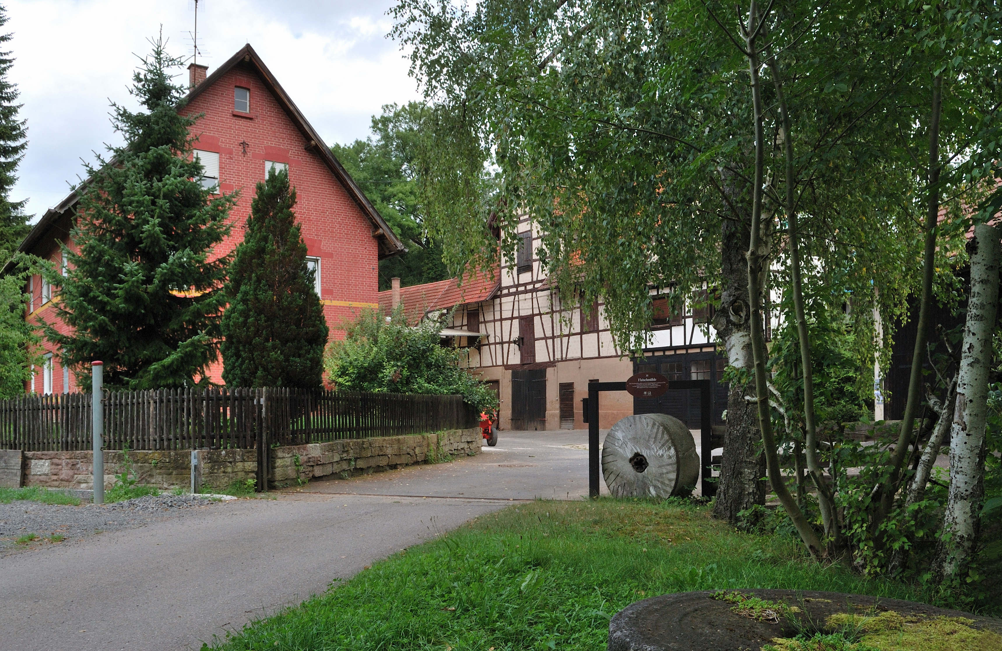 The “Fleischmühle”, a flour mill on the river Glems in Höfingen, Germany.